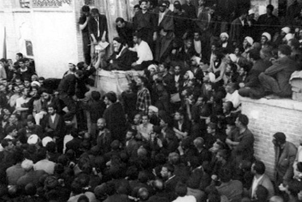 June 3, 1963 speech by Rohullah Khomeini - Feyziyeh School, Qom